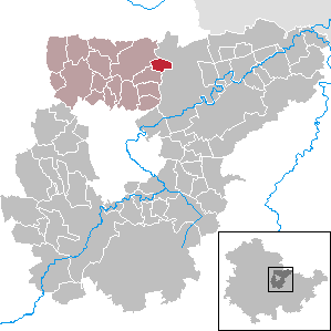 Rohrbach in Thuringia - District Weimarer Land